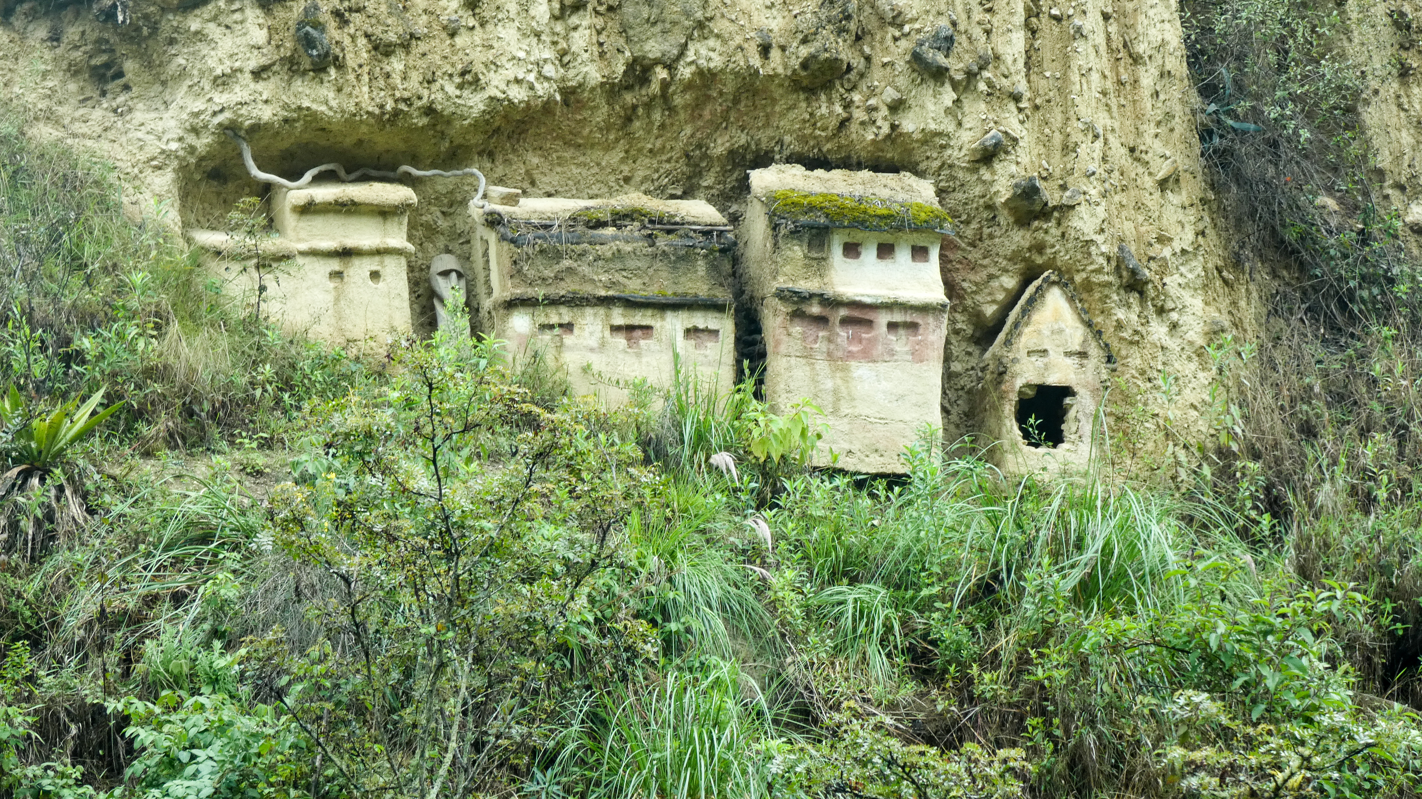 One of the Chachapoyas burial sites near Revash - Santo Tomás District - Chachapoyas Province, Amazonas region - Northern Peru.